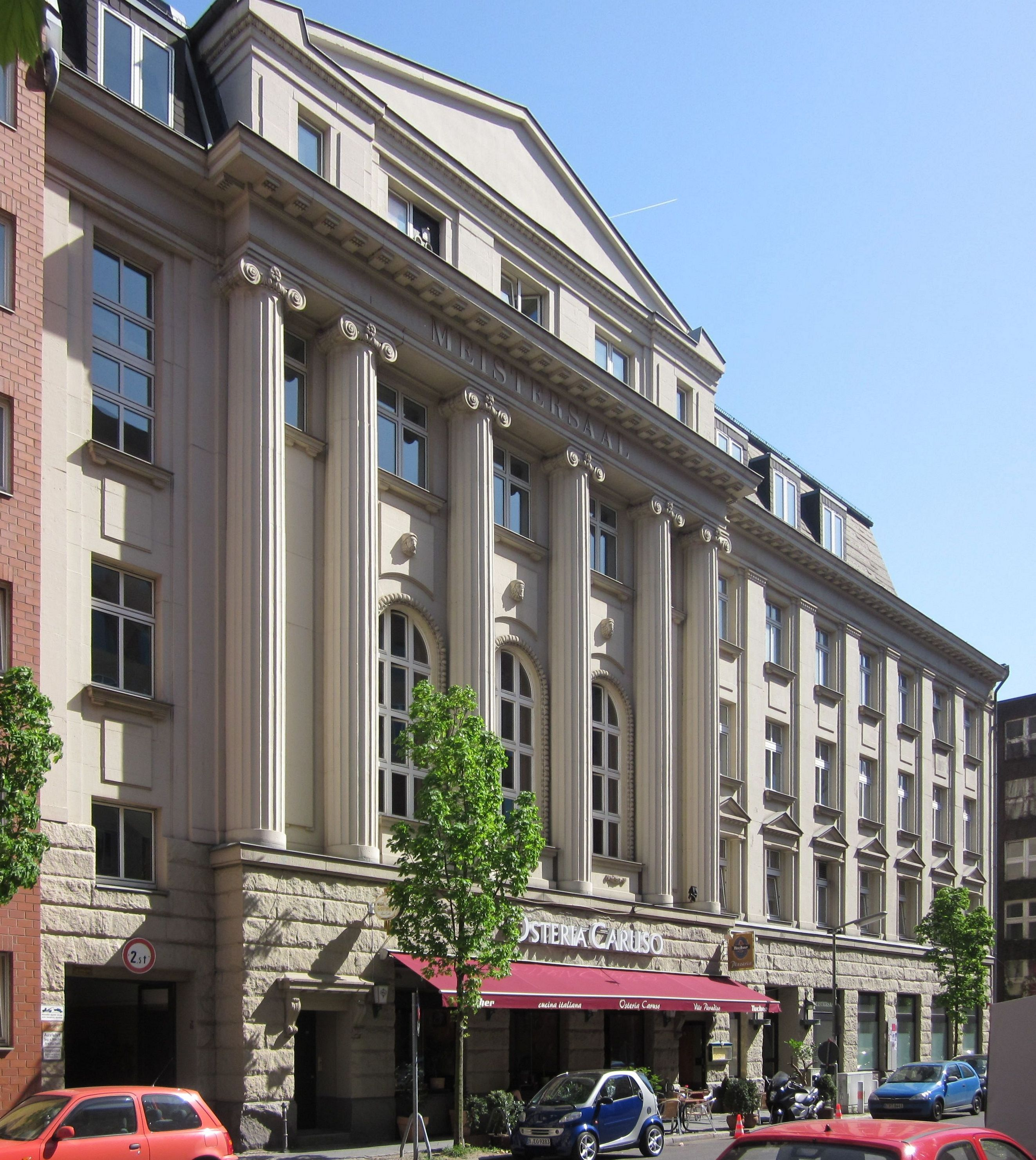 The Meistersaal at Köthener Straße No. 38 in Berlin-Kreuzberg. The building was constructed in 1912 by the architects Gieseke and Wenzke as office building for the Union of Building Companies of Berlin and Outer Boroughs. The name is derived from the chamber music hall in the building, where the master craftsman certificates were originally presented. The building has been designated as a cultural heritage monument.